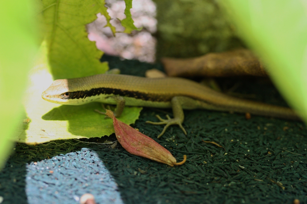 I think this is a juvenile indicus, taken near Ho Chung, Sai Kung.